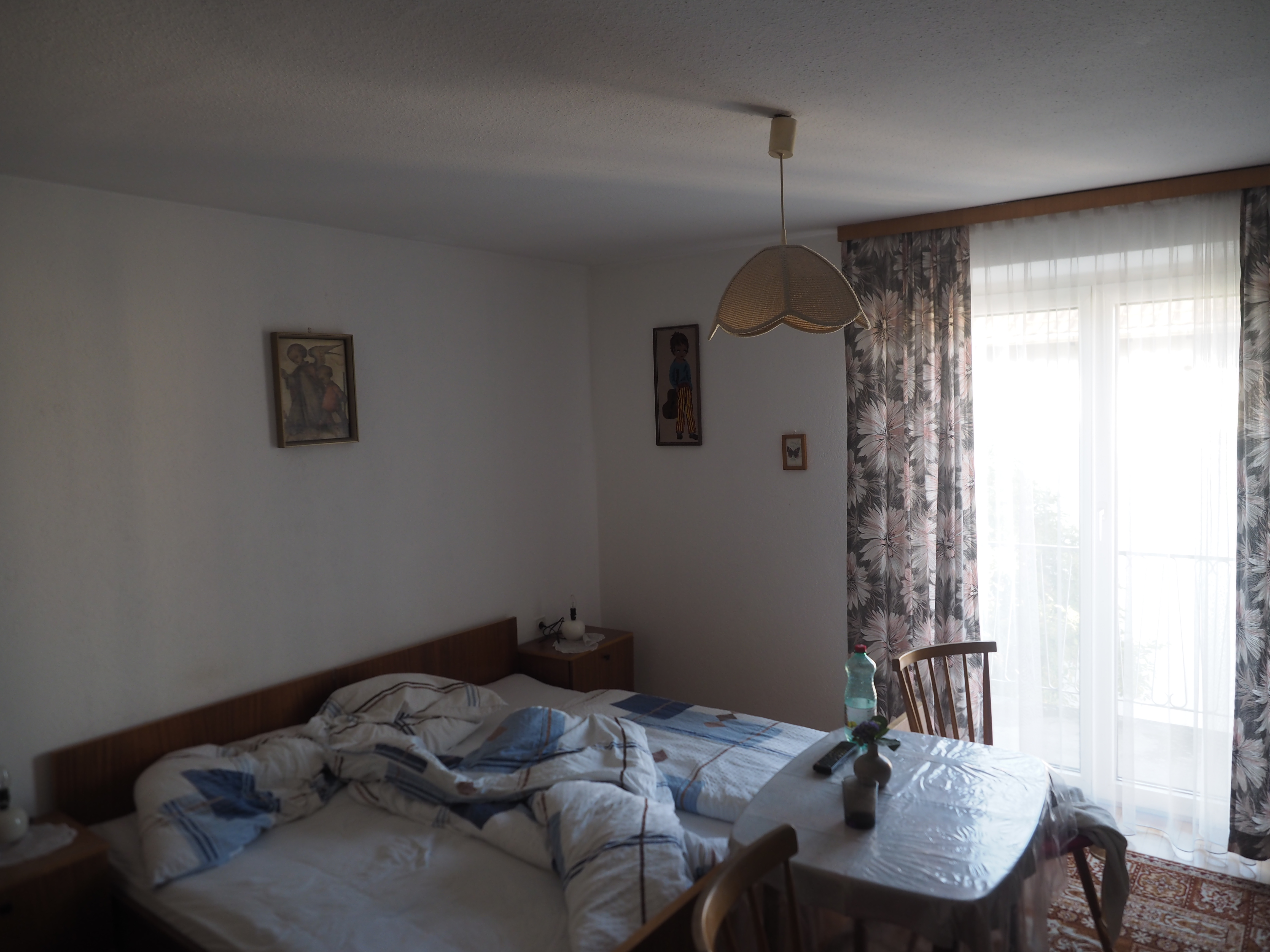 The interior of a guest room at Bed & Breakfast Karu in Hohenems, Vorarlberg, Austria.